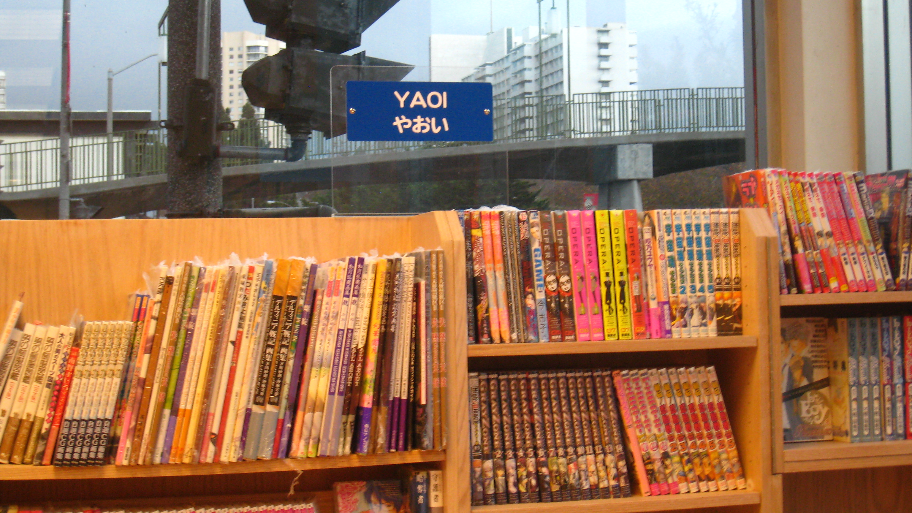 Yaoi manga in the Kinokuniya Bookstore in Japantown, San Francisco.